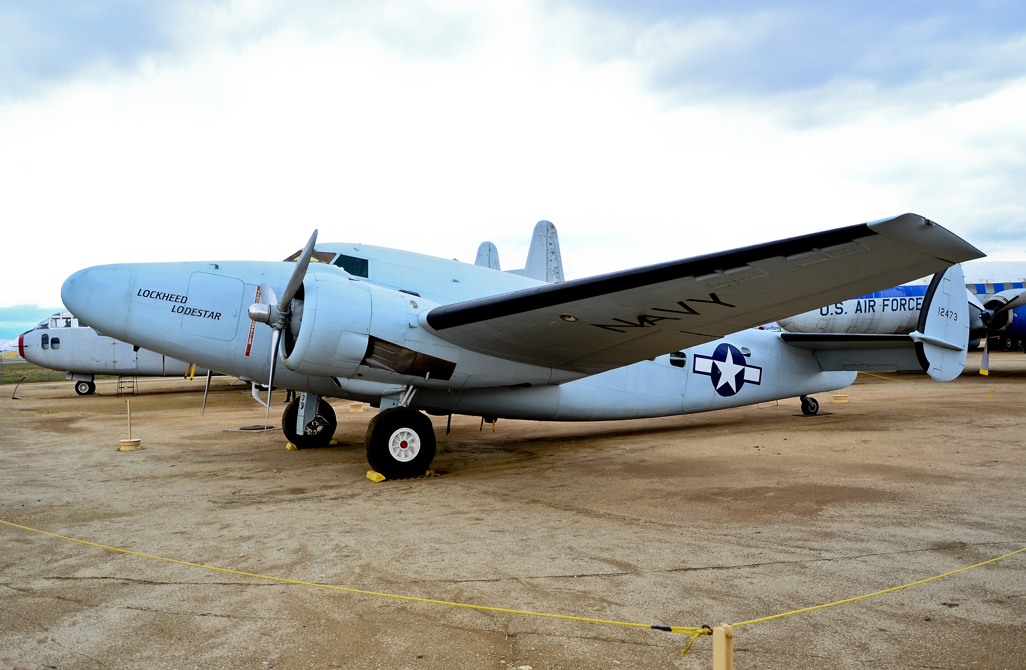 serial number 43-3538 March Field Air Museum TDelCoro October 21, 2012